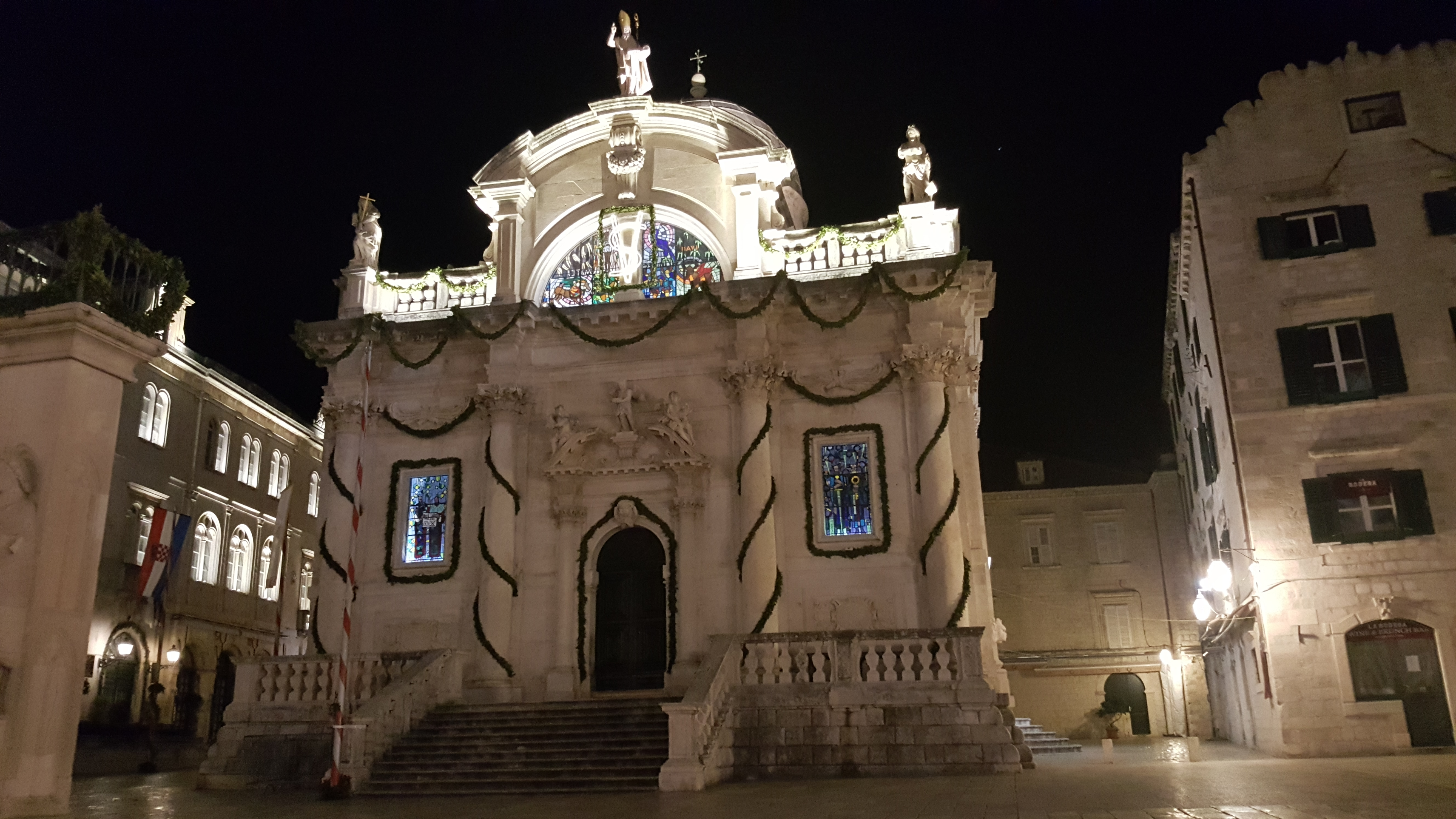 St Blaise church and Orlando statue by night in Dubrovnik decorated for celebration of St Blaise's day